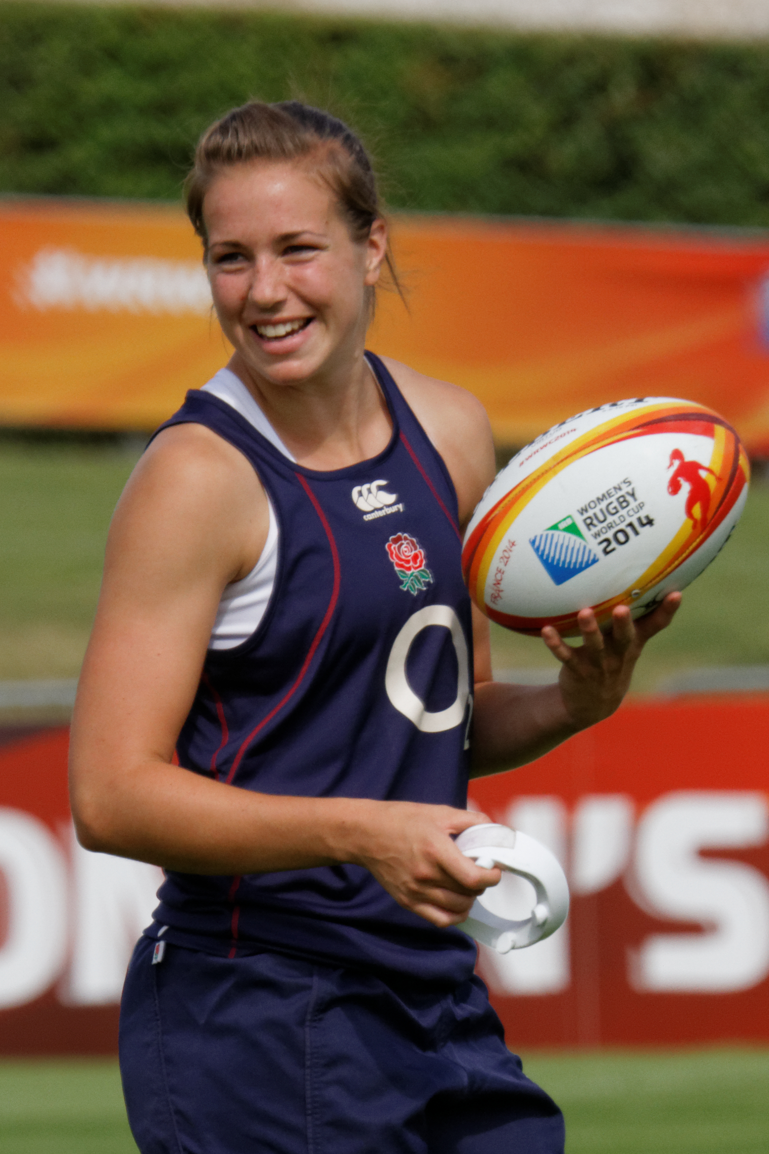 English rugby union player Emily Scarratt during a training at the 2014 Women's Rugby World Cup in France